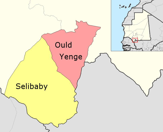 A simple adaptation of User:Rarelibra's original Image:Gorgol Departments.png consisting solely of using GIMP to replace the names on the map w/larger names.